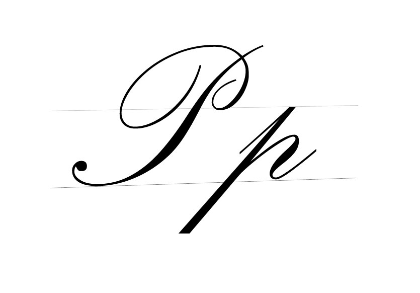 Calligraphic russian letter R = "Р"